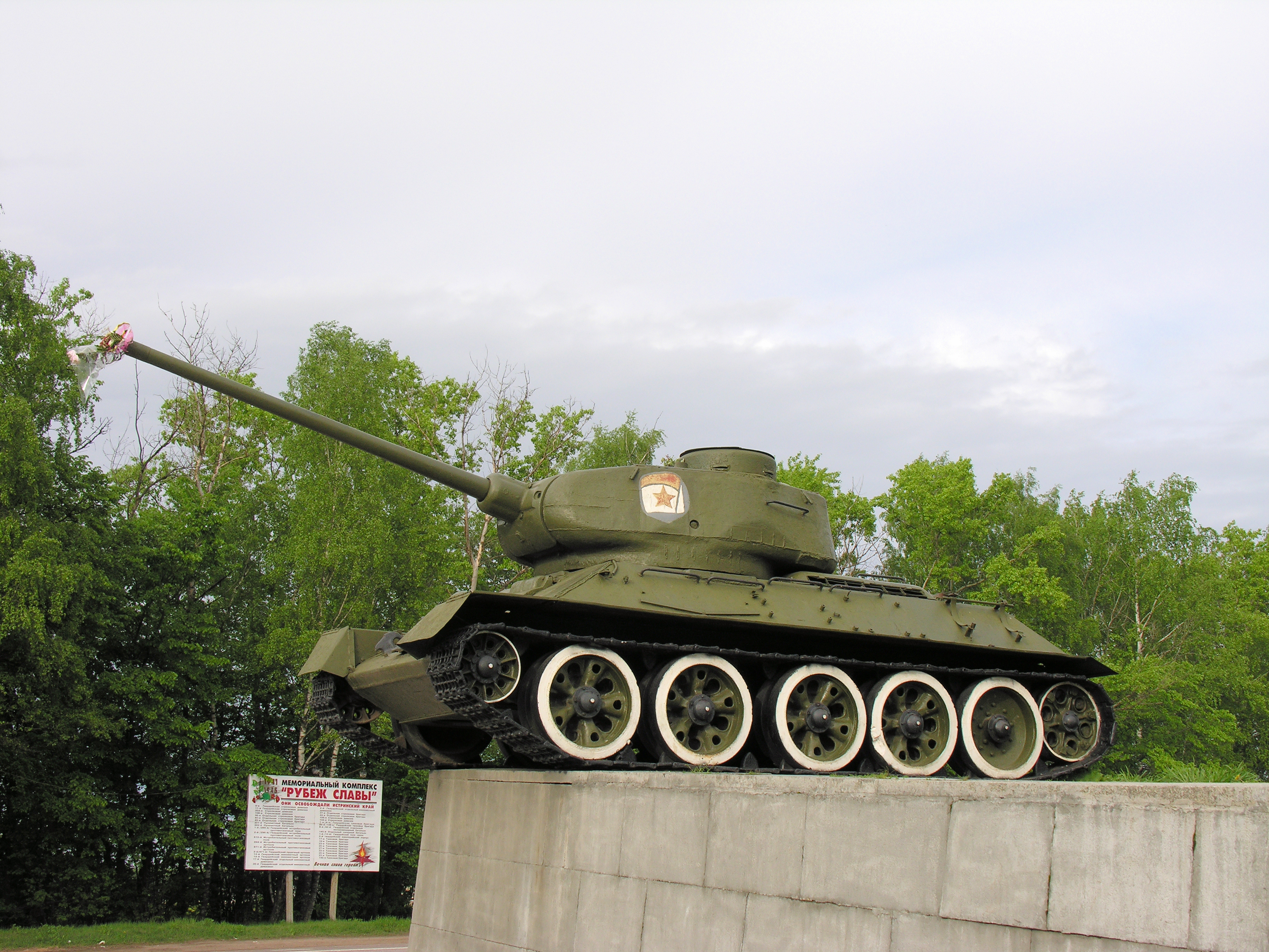 Soviet medium tank T-34 at Rubezh Slavy memorial in Lenino-Snegiri Military Historical Museum, Russia.